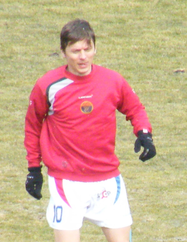 Čedomir Pavičević Serbian football player